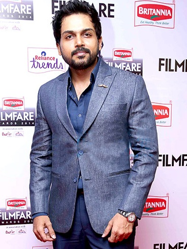 Karthi at the 62nd Filmfare Awards South ceremony held in Nehru Stadium, Chennai